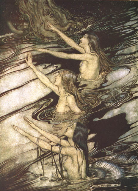 "Siegfried! Siegfried! / Our warning is true: / Flee, oh, flee from the curse!"